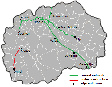 Map of Мacedonian motorways 2019